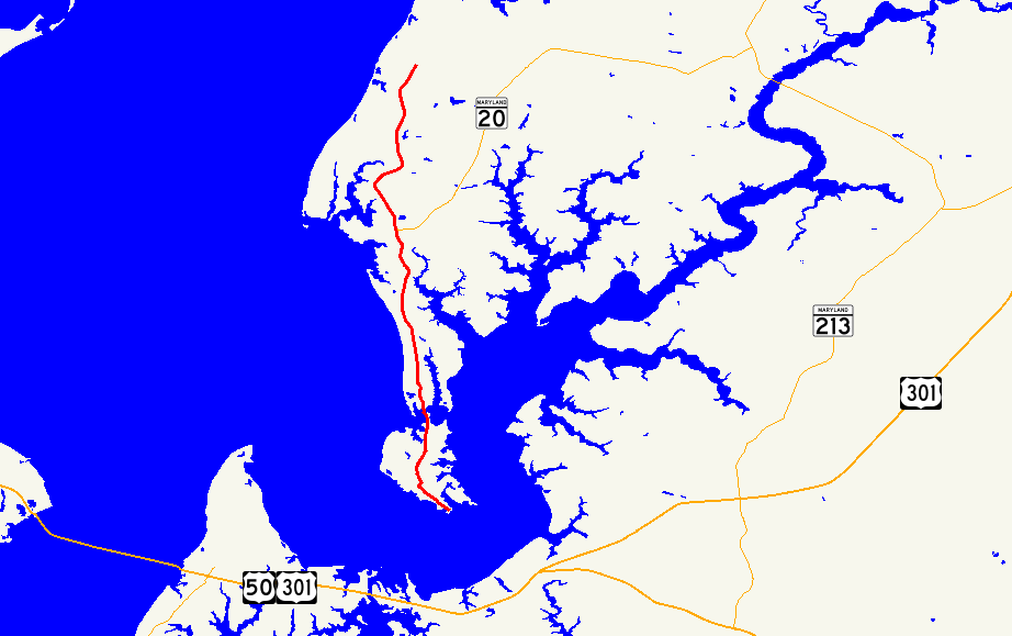 Map of Maryland Route 445